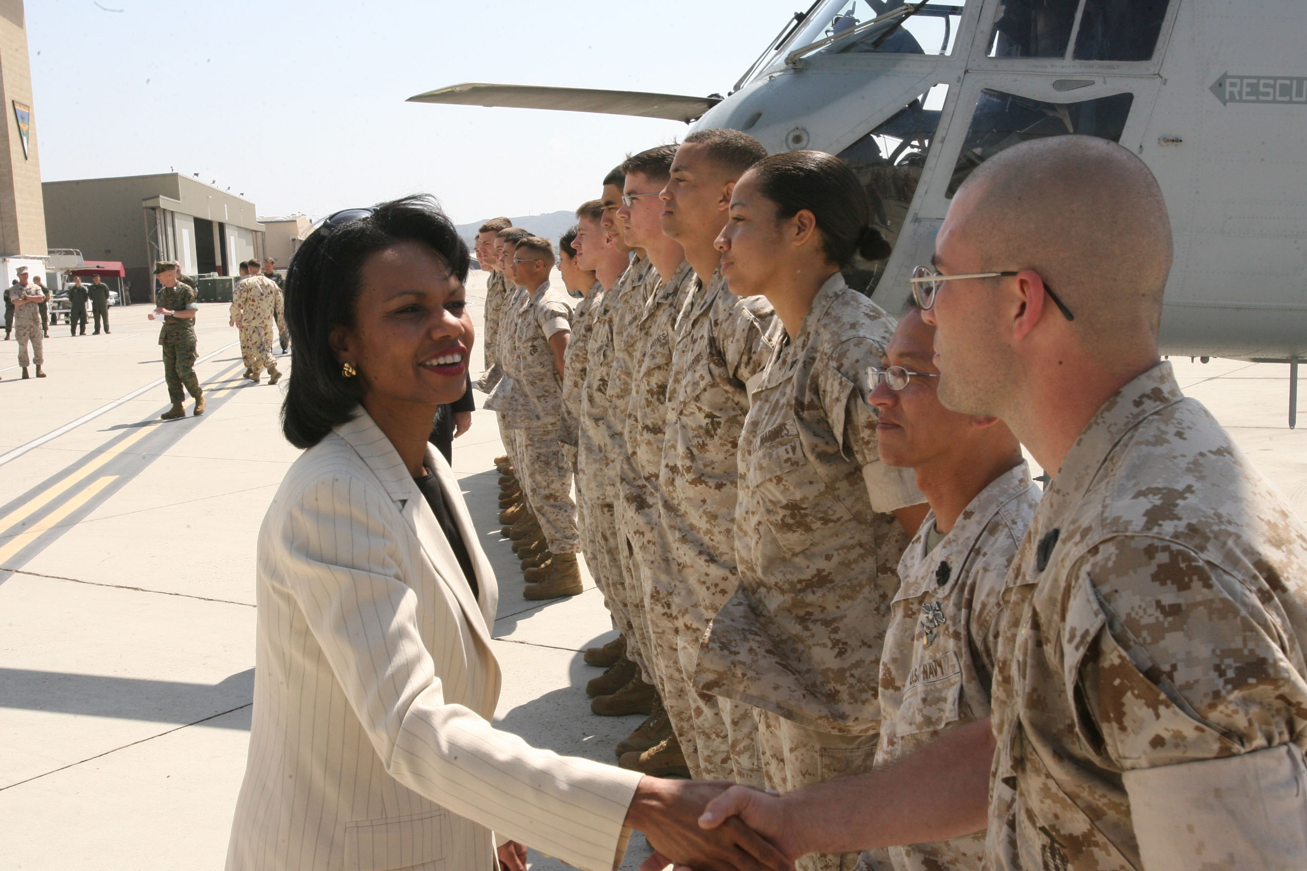 Secretary of State the Honorable Ms. Condoleeza Rice shakes the hand of a sailor during her visit to Marine Corps Base Camp Pendleton May 23. Marines and sailors from I Marine Expeditionary Force, located at Camp Pendleton, have been key contributors to the Global War on Terrorism. Rice visited Camp Pendleton to show her support and respect for the Marines both deployed and supporting the War on Terrorism on the homefront.